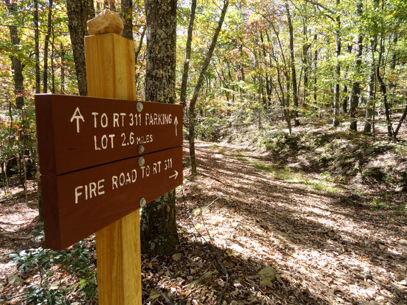 The fire road crossing on the Appalachian Trail section that leads to McAfee Knob in Roanoke County, Virginia.